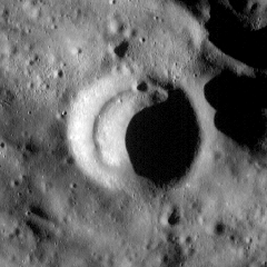 Concentric crater Lamarck B on the Moon, on highlands between maria Humorum and Orientale, in crater Lamarck. Its diameter is about 8 km. It is not included in the list of concentric craters by Wood, 1978. Photo by Lunar Reconnaissance Orbiter, made with Wide Angle Camera on 9 December 2011 from altitude 41 km. Sun elevation is 13.2°. Width of the photo is 15 km, north is approximately up.